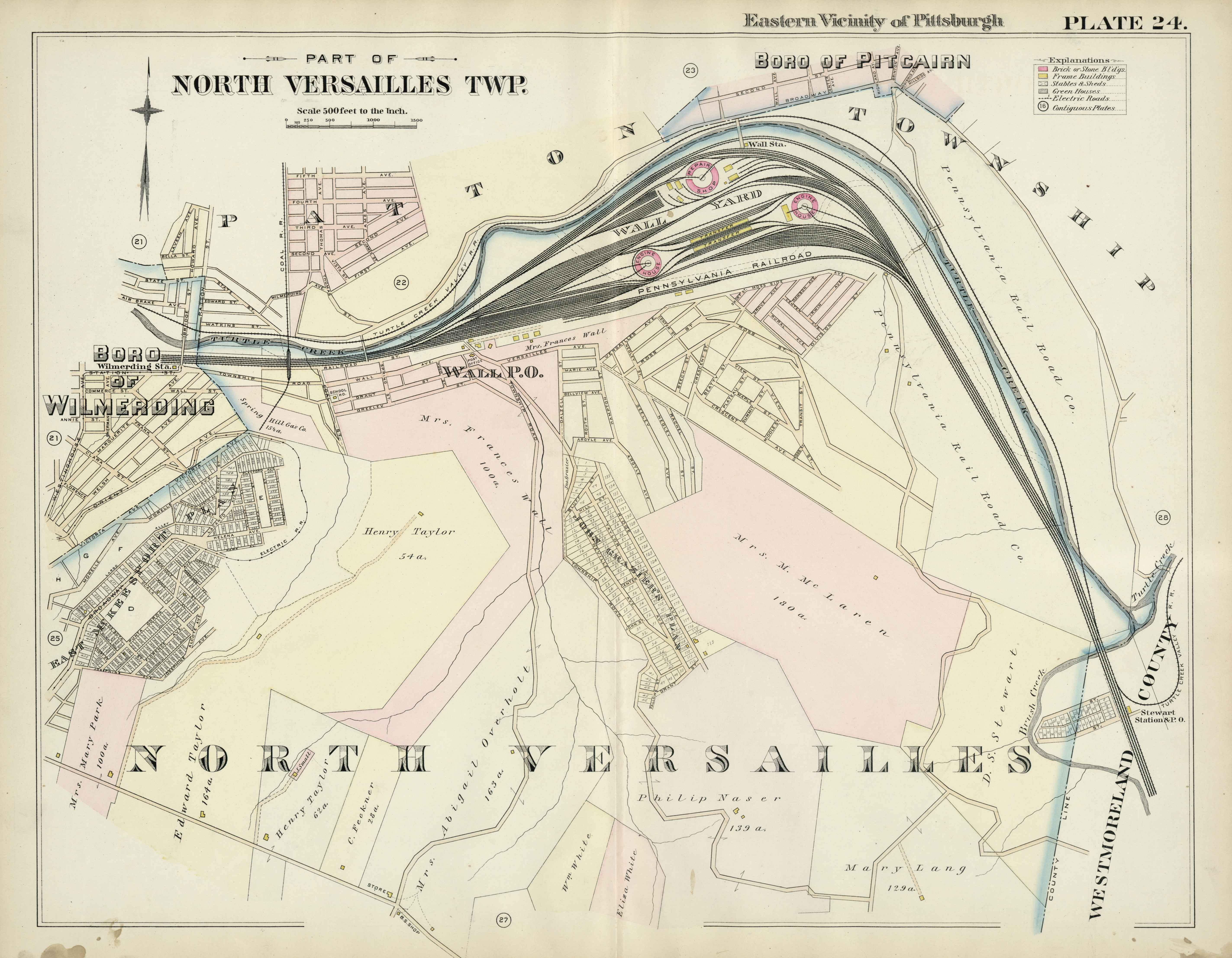 1895 Hopkins map of Wall Yard near Pitcairn, PA. This map shows the rail-yard constructed by the Pennsylvania Railroad Company in the late 19th century in North Versailles Twp, PA